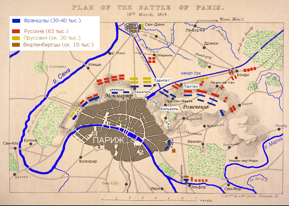 Map of the troops positions in Battle of Paris, 30-th march 1814. Written date of 18-th march is from russian julian calendar (12 days difference). In russian: Сражение за Париж в 1814. Названия и транскрипция французских деревень перенесены с современной карты Парижа.